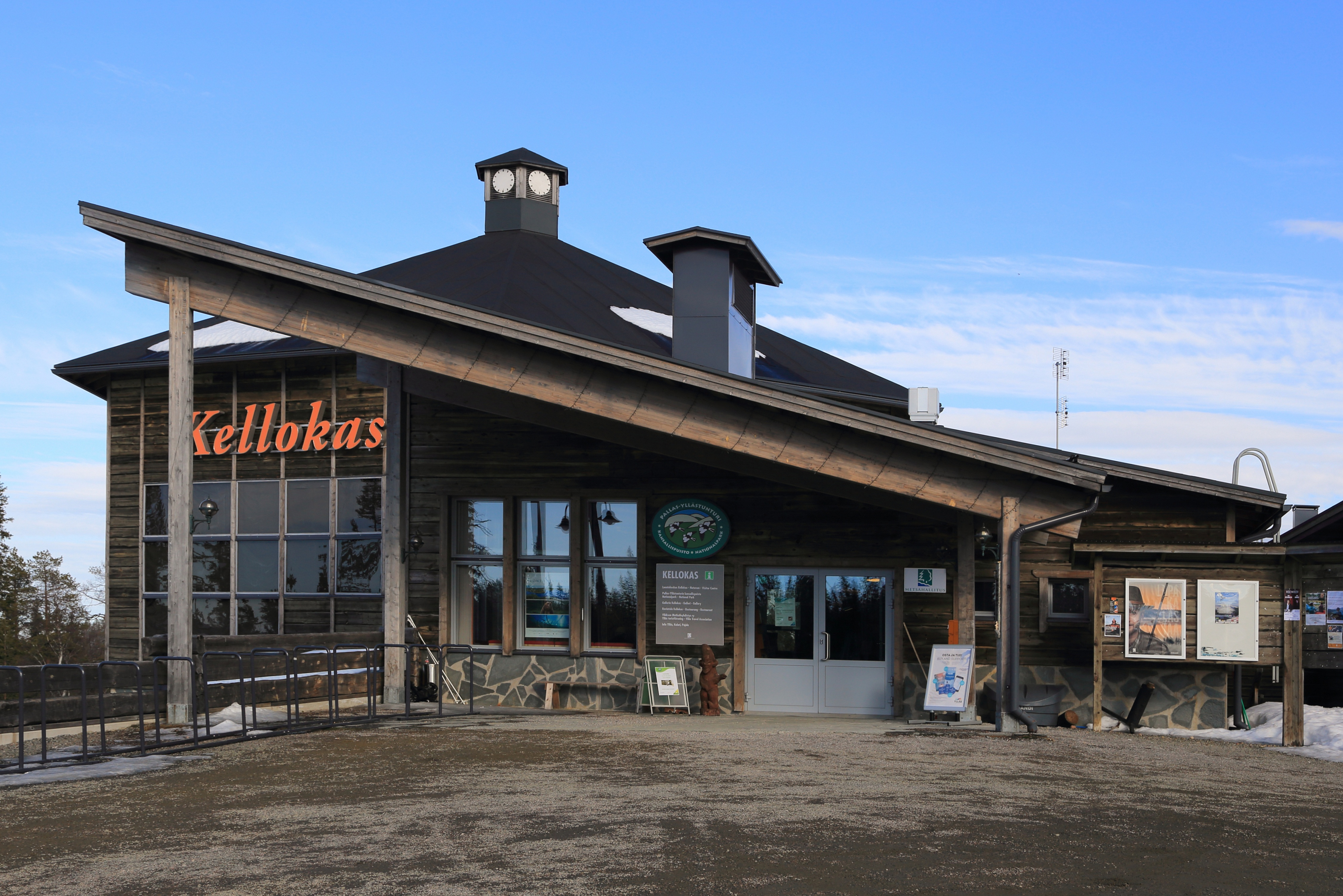 The Visitor Centre Kellokas in Kolari, Finland.